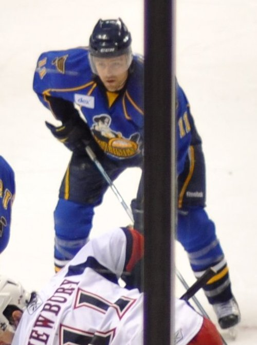 Chris Porter - Grand Rapids Griffins vs. Peoria Rivermen 02-20-2010